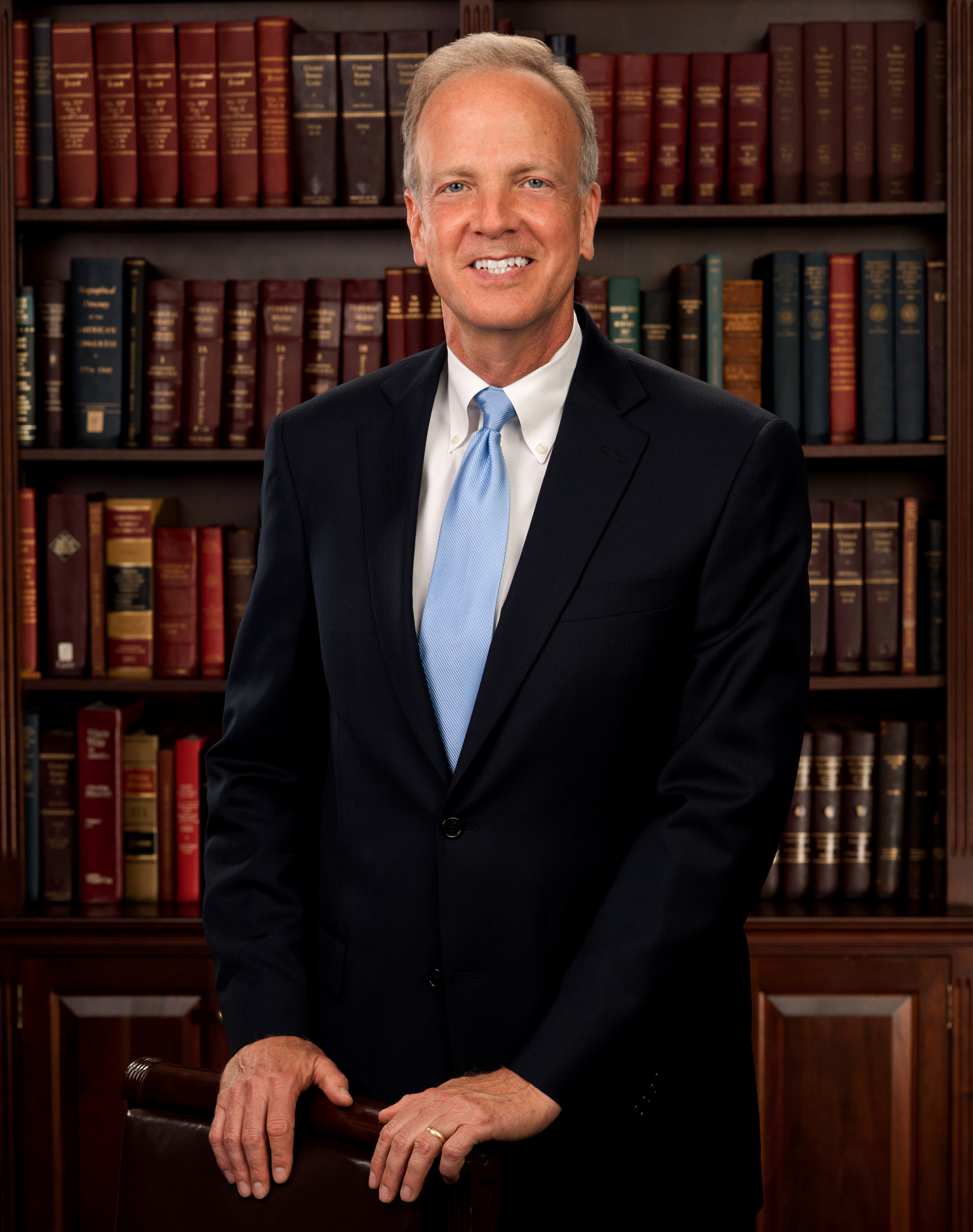 Official portrait of United States Senator Jerry Moran (R-KS).